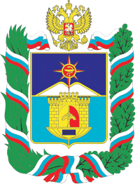 Kislovodsk (Stavropol kray), coat of arms